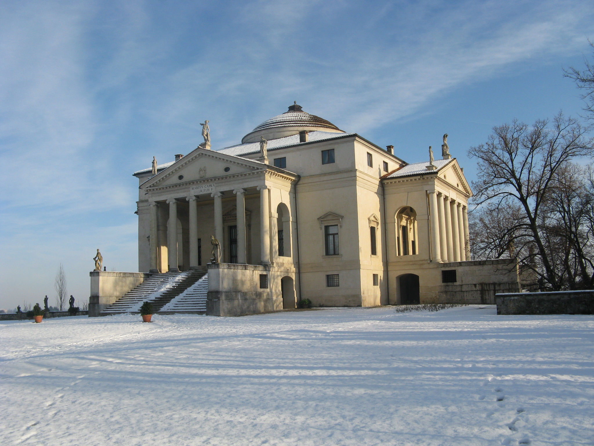 La Rotonda (Andrea Palladio) in winter (snow)